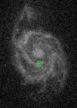 Ultra-violet image of SN_2005cs